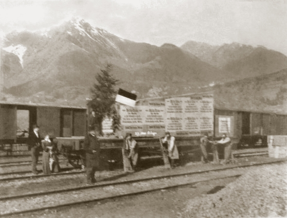 Rail transport of goods by Rudolf Hartmann, logistics company in Meran, South Tyrol. Image taken around 1910's.